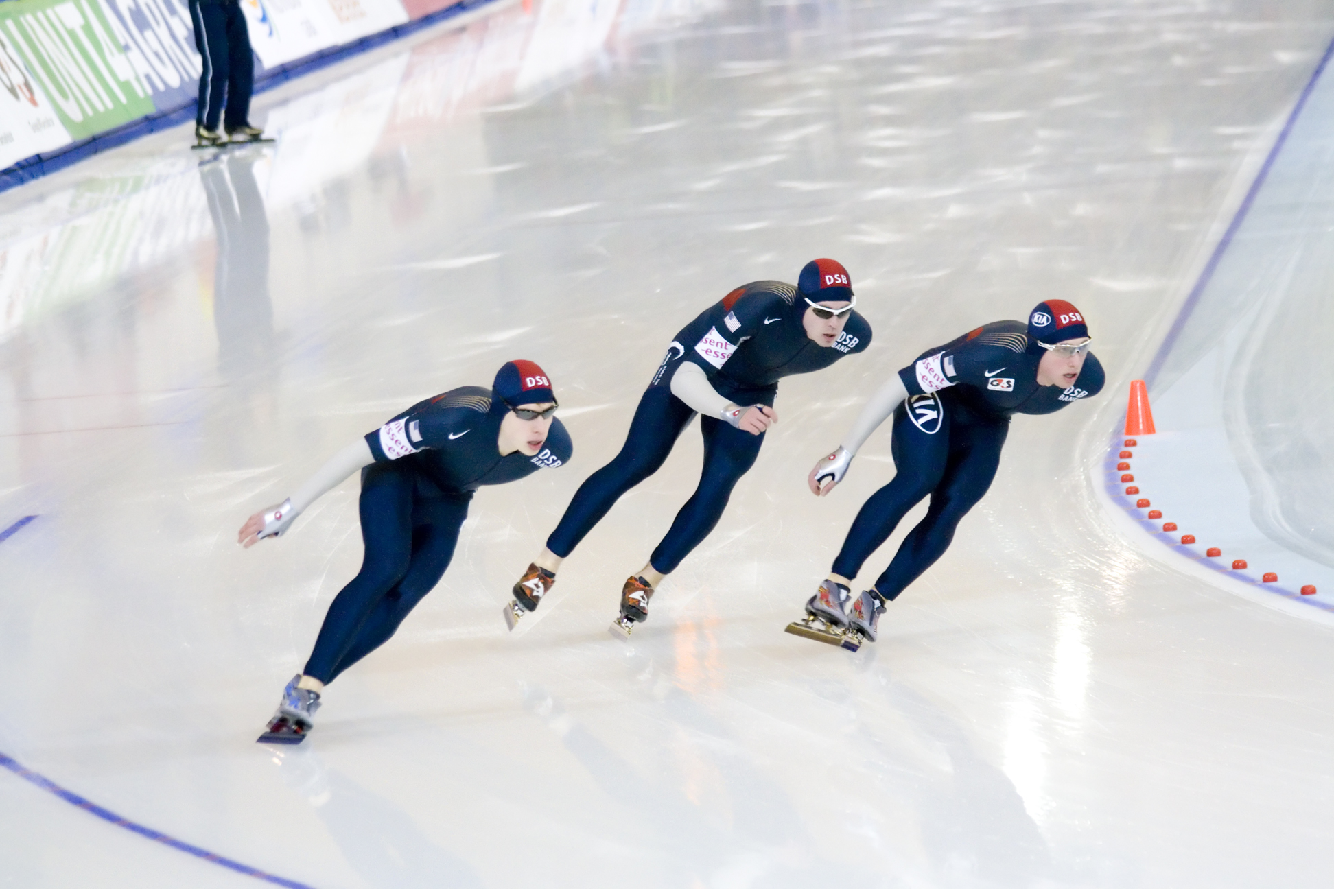 Team USA. Trevor MARSICANO, Ryan BEDFORD, Brian HANSEN